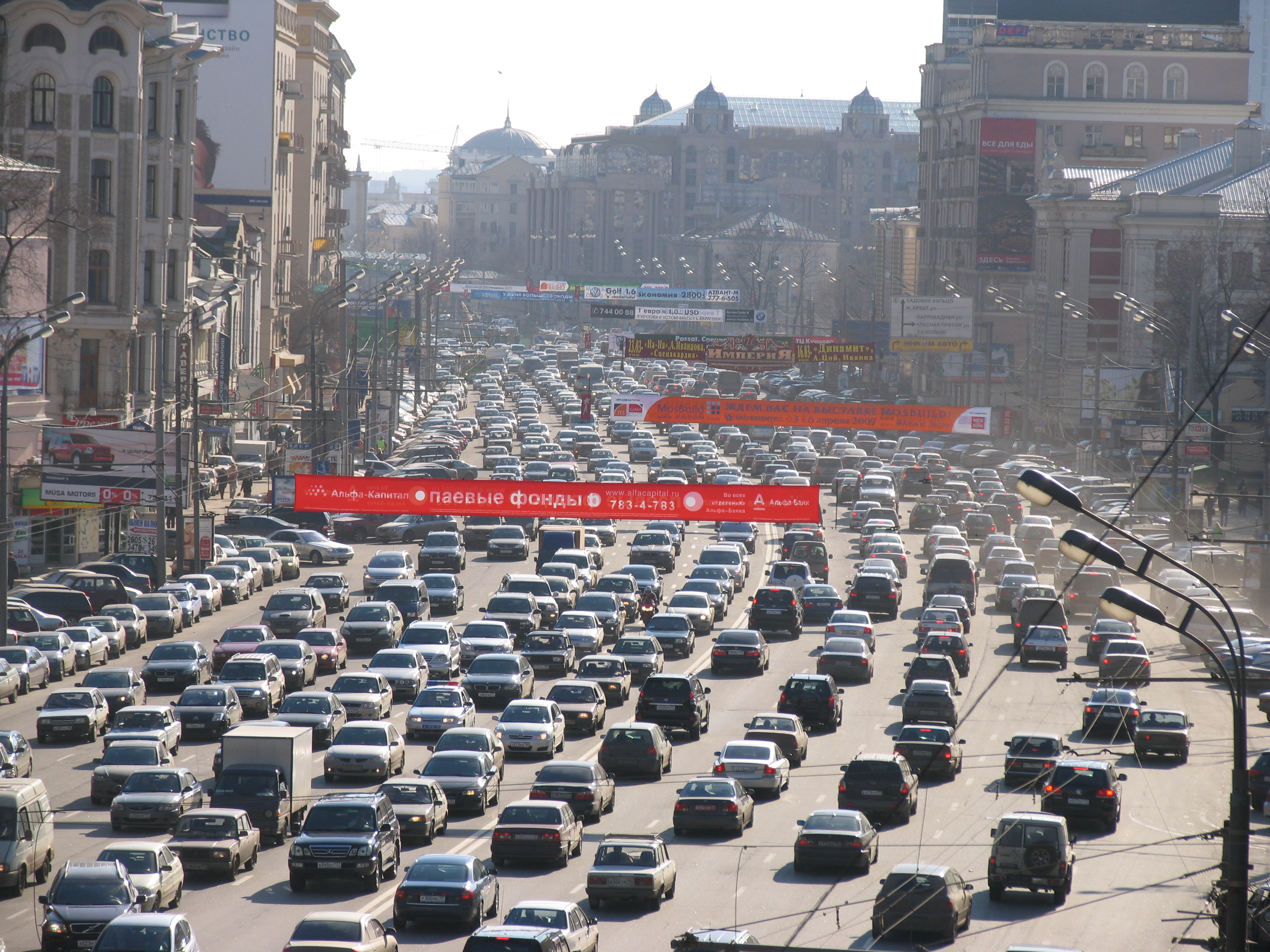 High Traffic. Garden Ring. Moscow